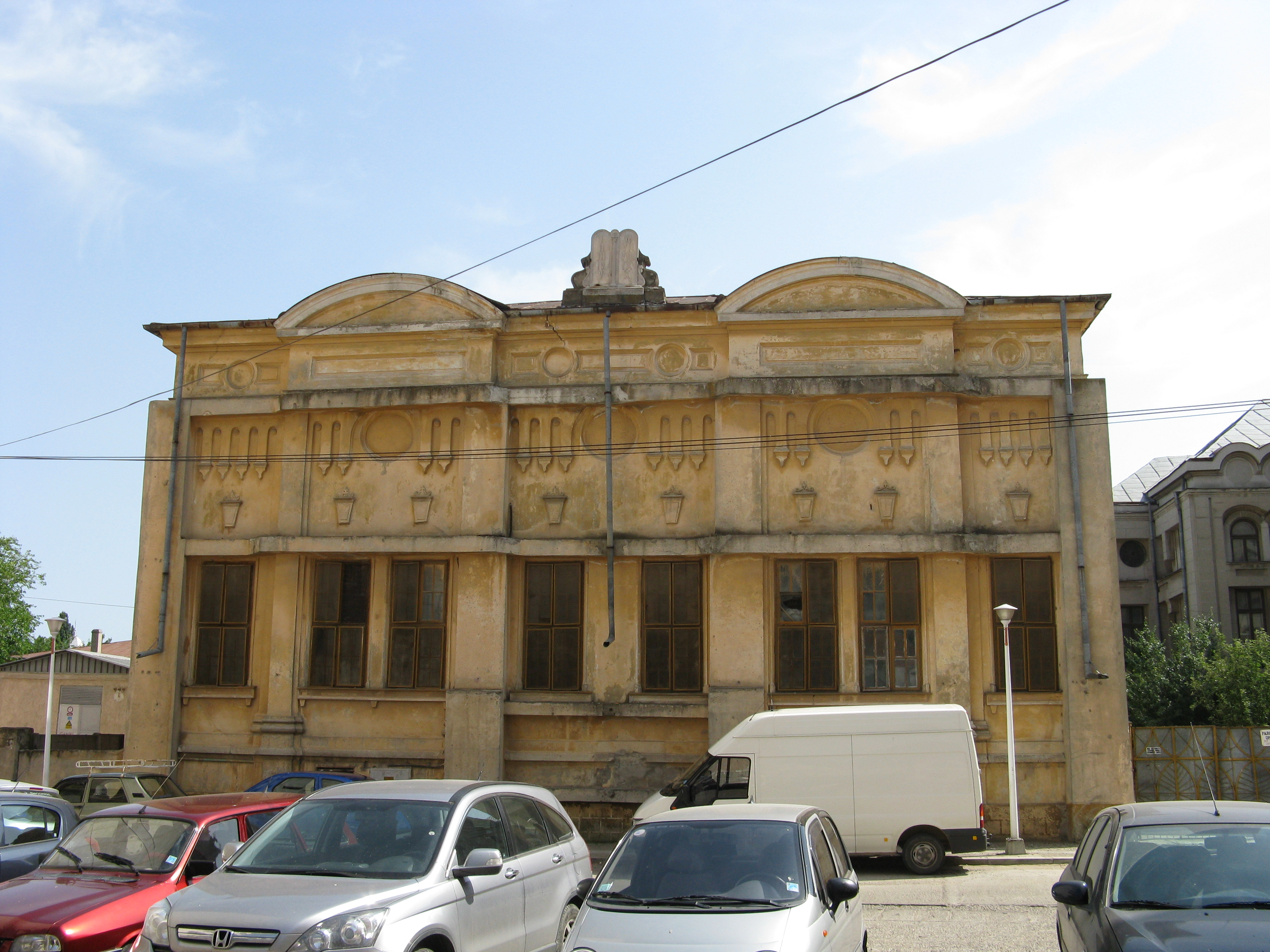 The jewish cummunity house in Galatz